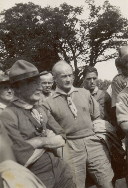 Scouting's founder Robert Baden-Powell at the Fourth World Jamboree at Godollo, Hungary